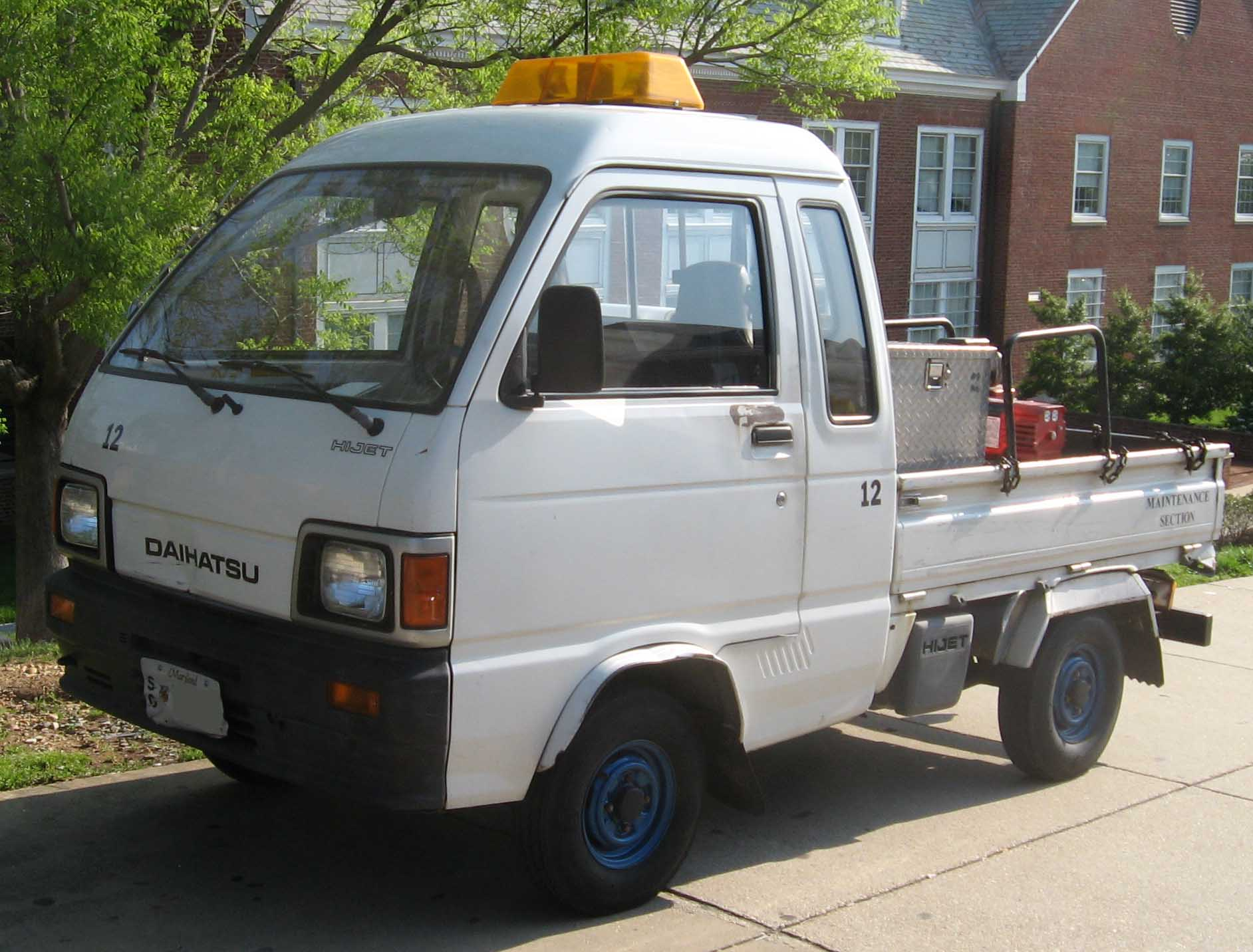 Daihatsu Hijet photographed in College Park, Maryland, USA.